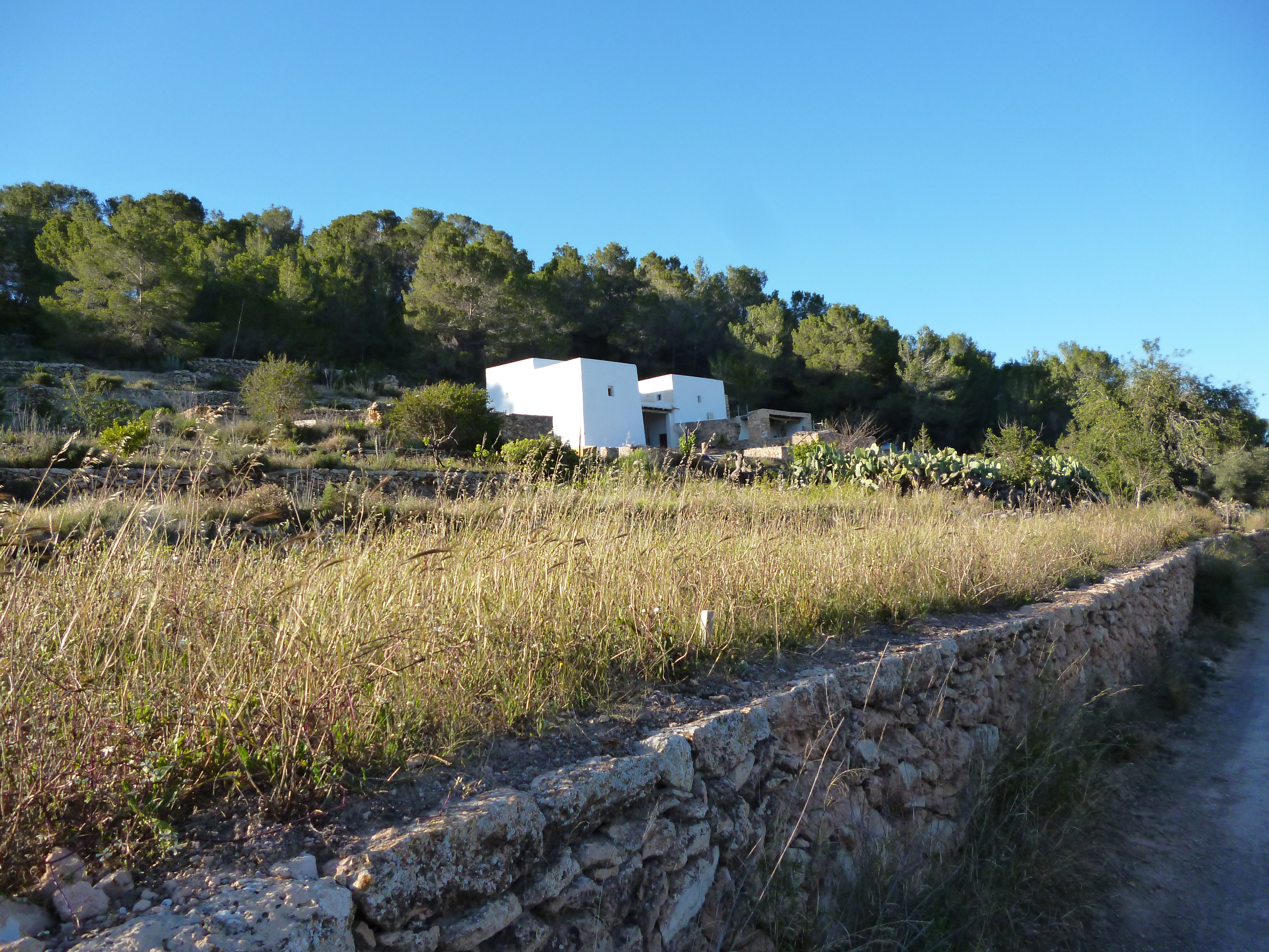 Tipical Farmhouse from Ibiza "Can Frara"